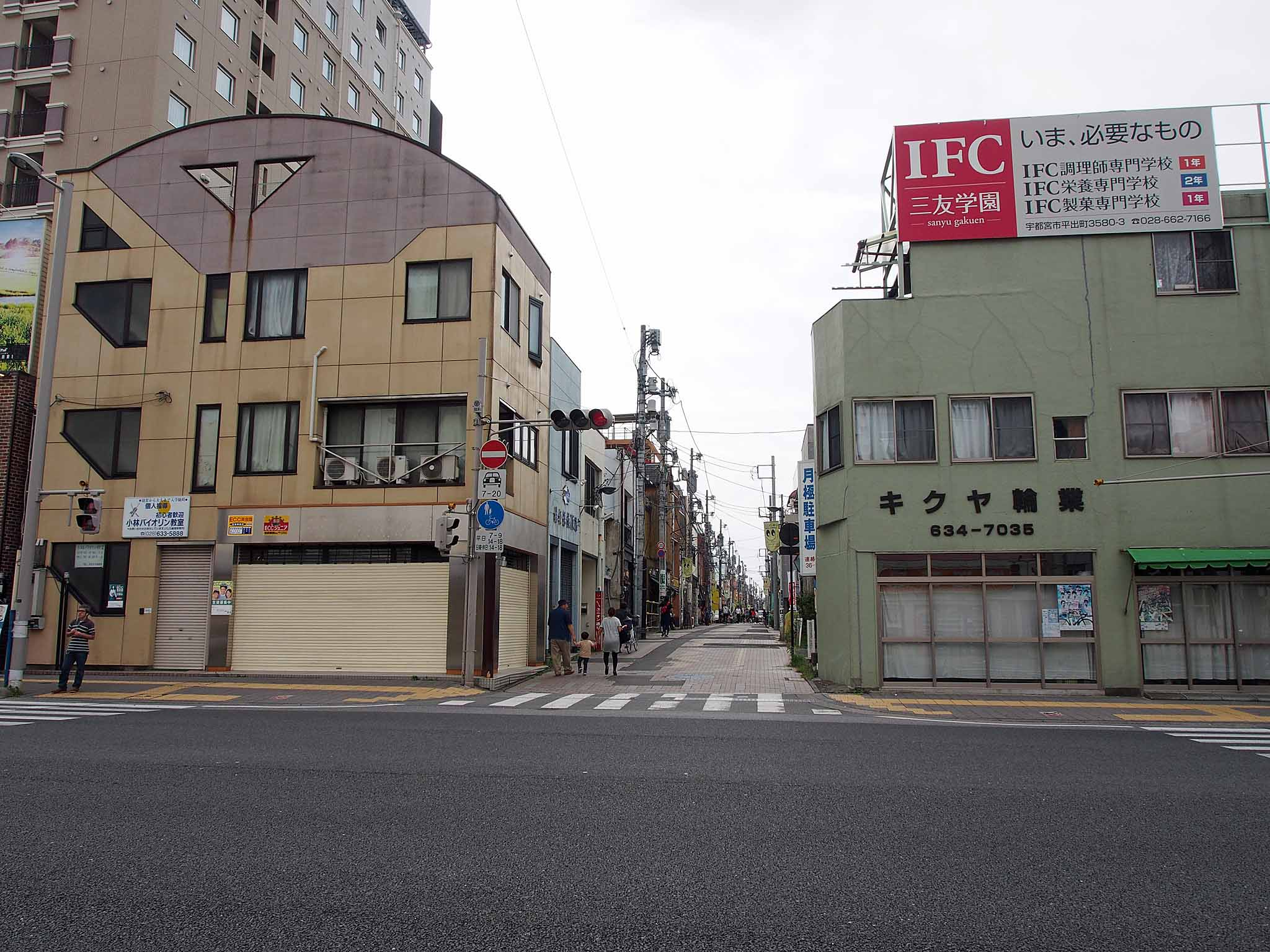 Union Street of Utsunomiya, Tochigi, located at neighbor of Tobu Utsunomiya Station.